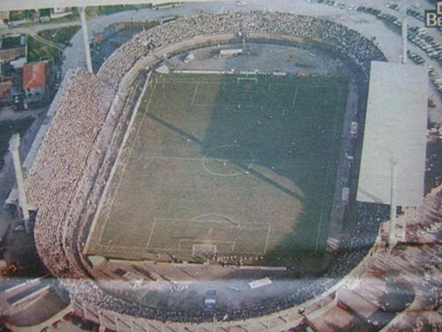 Torcida do Avaí. Ressacada lotada em 1997